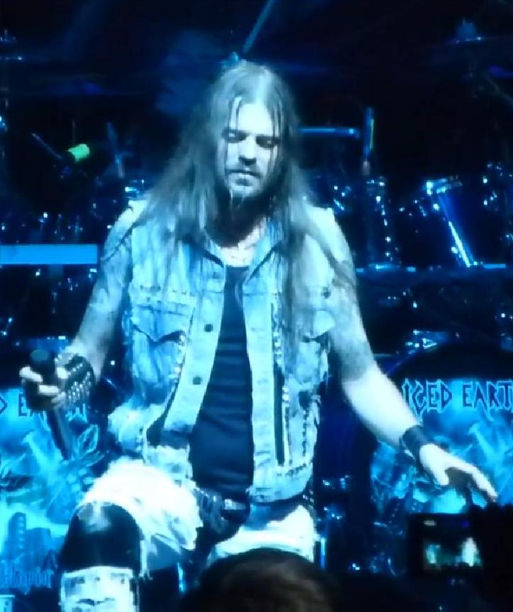 Stu Block performing with Iced Earth.